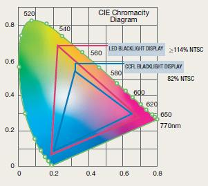 CIE diagram comparing CCFL backlight LED backlight.